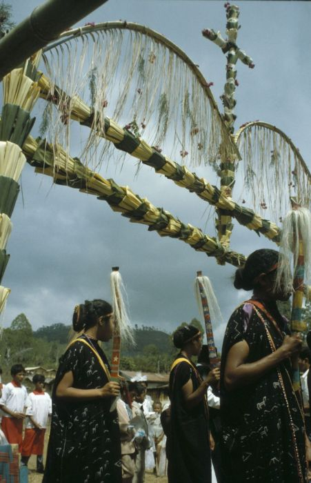 Procession celebrating the First Holy Communion at Bobo